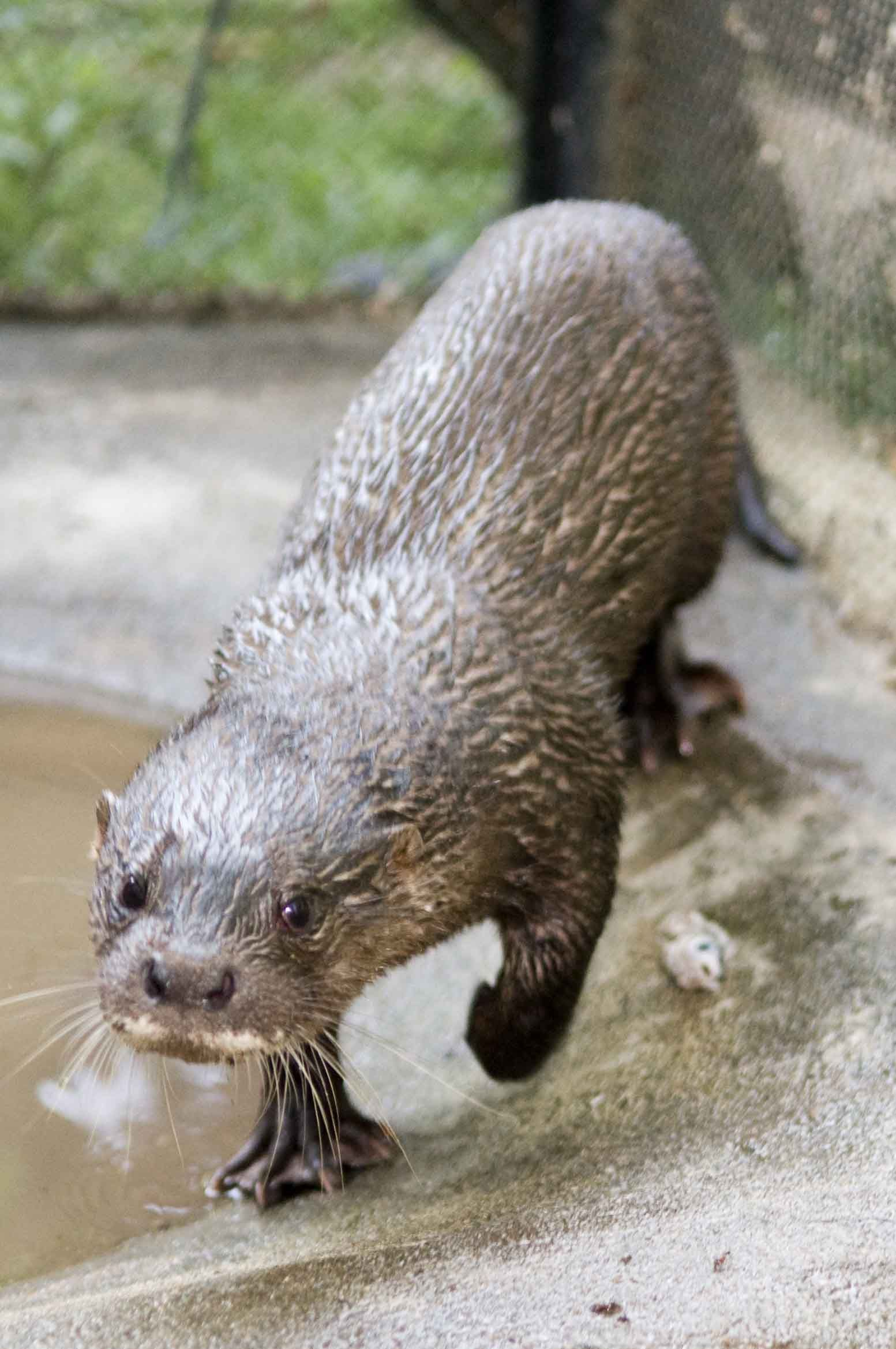 Hairy Nosed otter from Cambodia